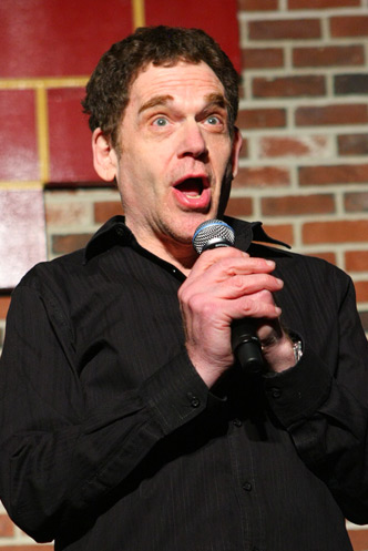 Charles Fleischer at the Improv at Harrah's in Las Vegas